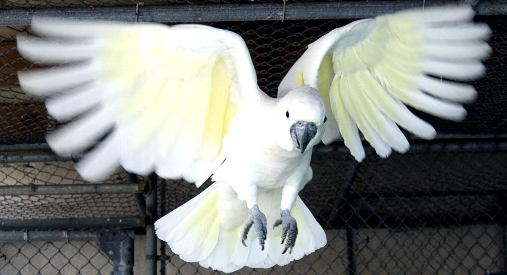 A captive Sulphur-crested Cockatoo flying